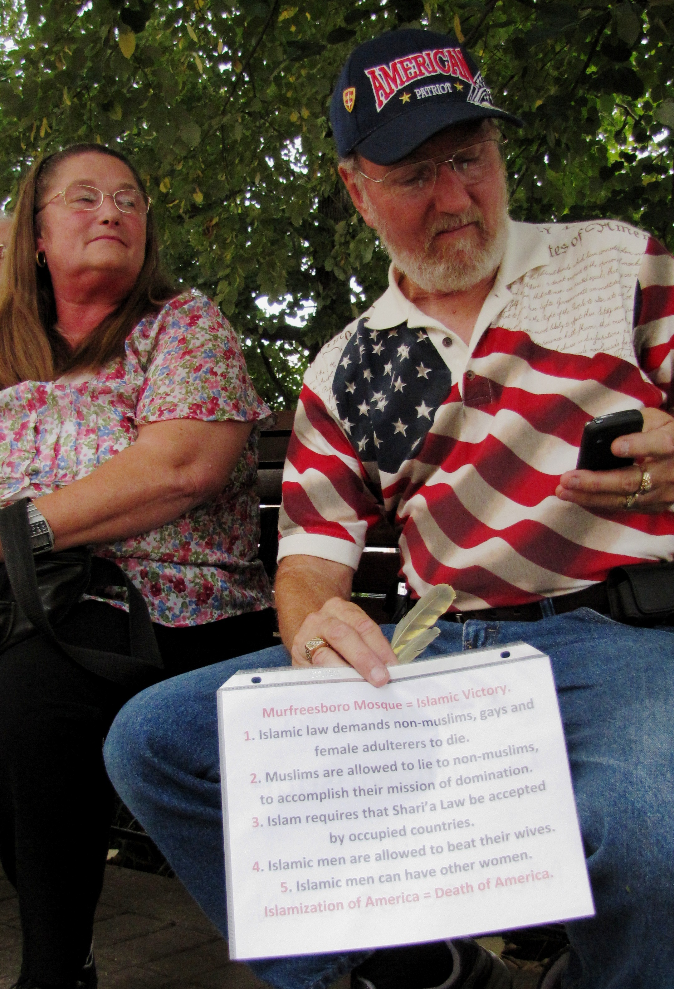 A man holds a sign stating his opposition to a proposed mosque in Murfreesboro, Tennessee, USA.